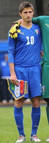 Fabio Borini in Italy U-19